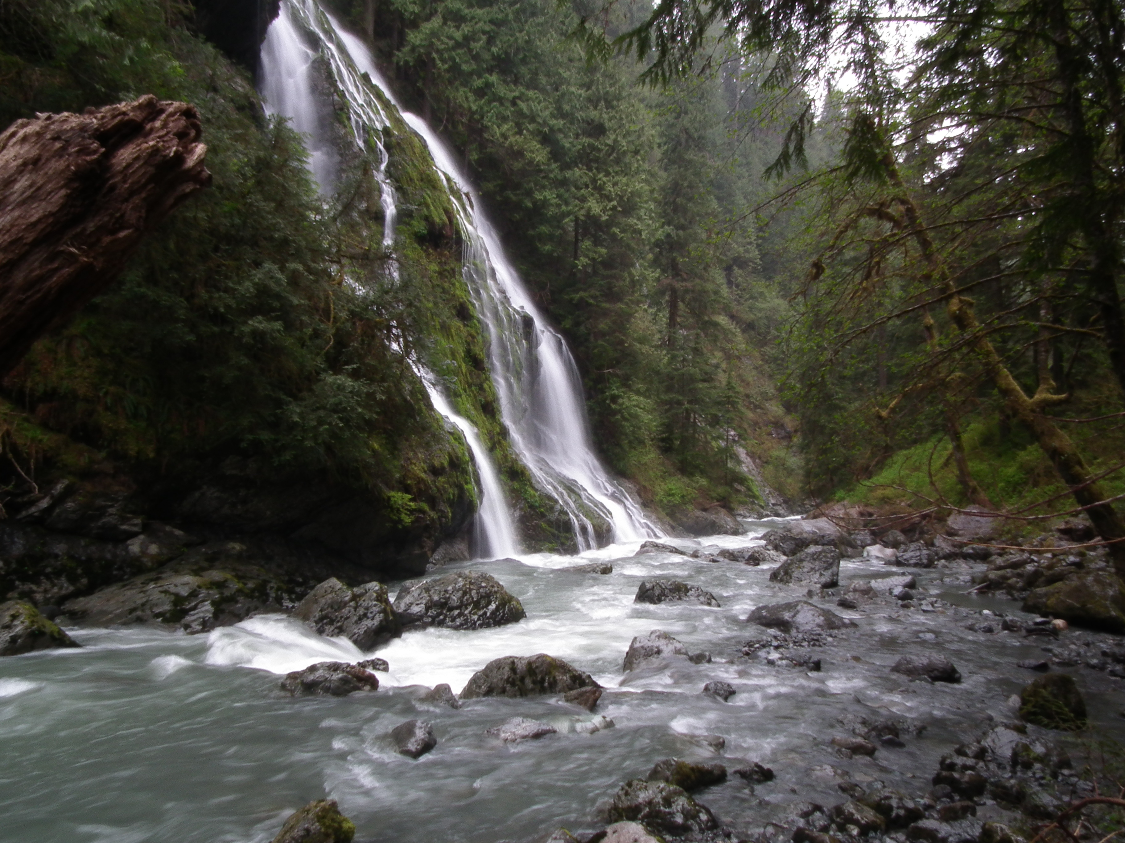 Feature Show Falls on the Boulder River in the Boulder River Wilderness, Mt. Baker-Snoqualmie National Forest, Washington, USA.